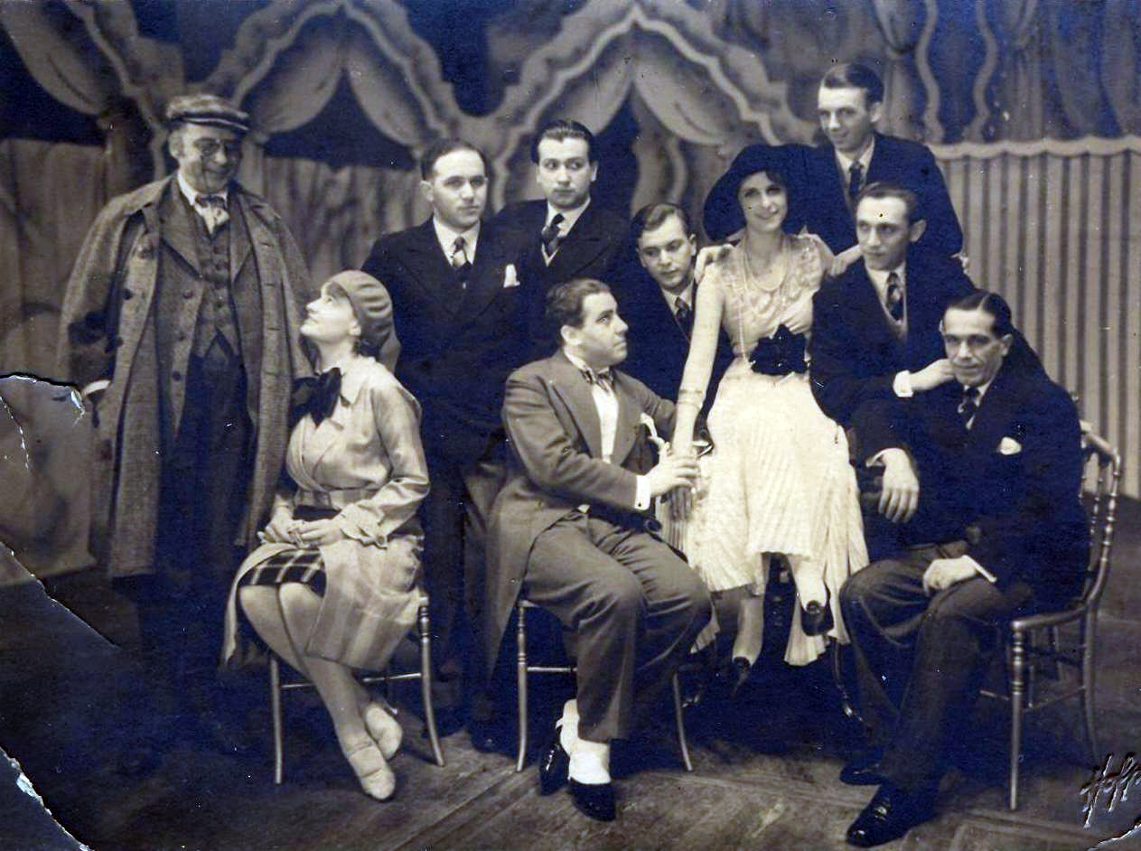 Comedian Harmonists, Leipzig.